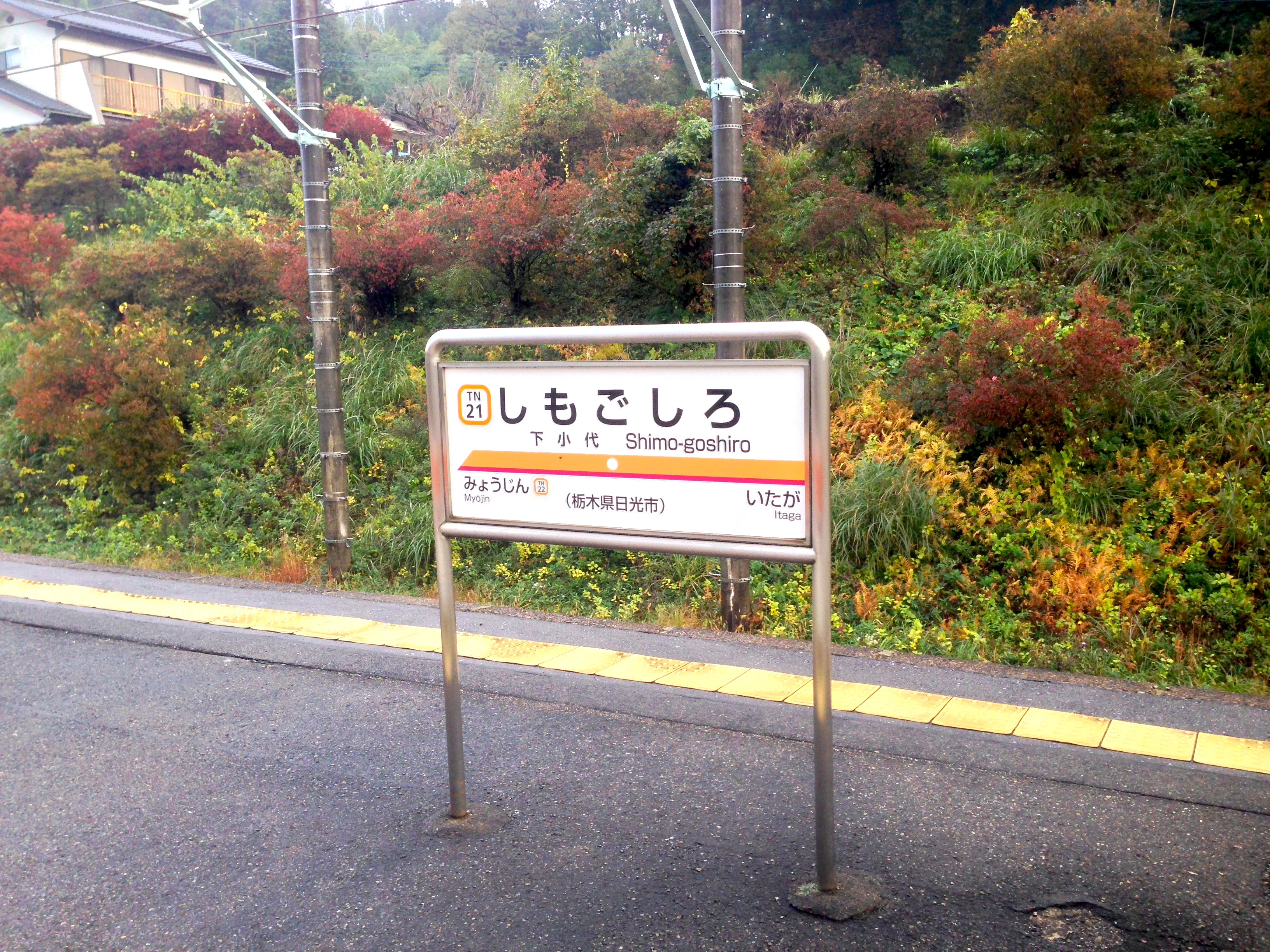 Shimo-Goshiro Station (下小代駅 Shimo-Goshiro-eki) is a train station in Nikkō, Tochigi Prefecture, Japan. This is a platform picture on a rainy day.